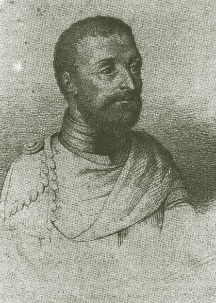 This portrait (Marasca Collection, Biblioteca Bertoliana of Vicenza) is traditionally beleived to represent Antonio Pigafetta. The ancient drawing was based on a statue in the Civic Museum of Vicenza, originally coming from St. Michael church (were the Pigafettas had a family tomb). It really represents another Pigafetta, Gio. Alberto of Gerolamo (d. 1562, 29 years old). Source: [1]